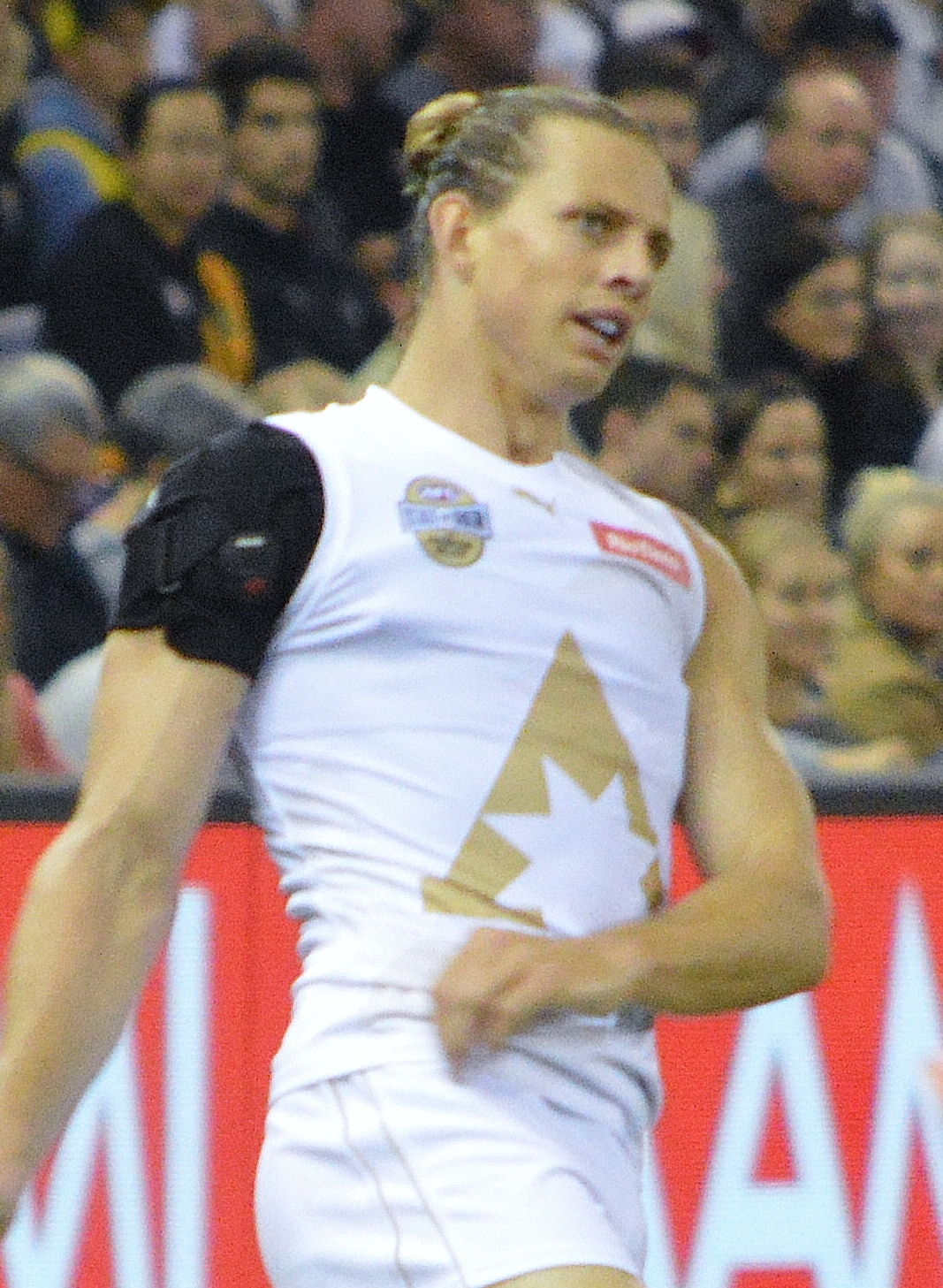 Nat Fyfe at the AFL State of Origin for Bushfire Relief Match at Marvel Stadium in February 2020.